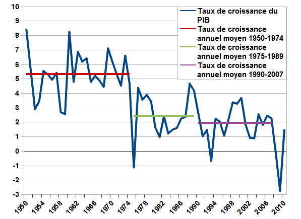 France GDP annual growth rate (1950-2010), and average annual growth rate for three different periods (most notably the "Trente Glorieuses")